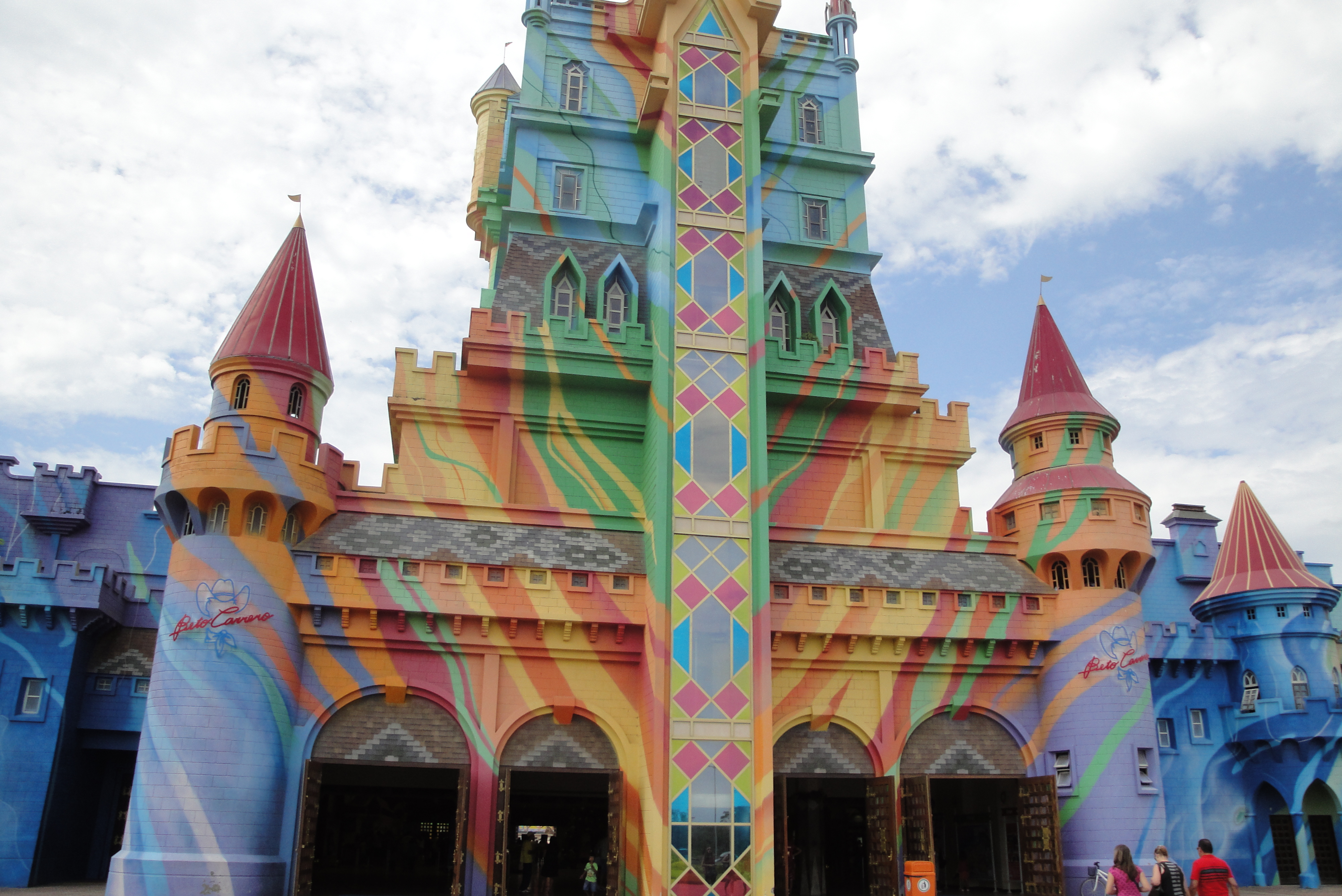 Castelo das Nações